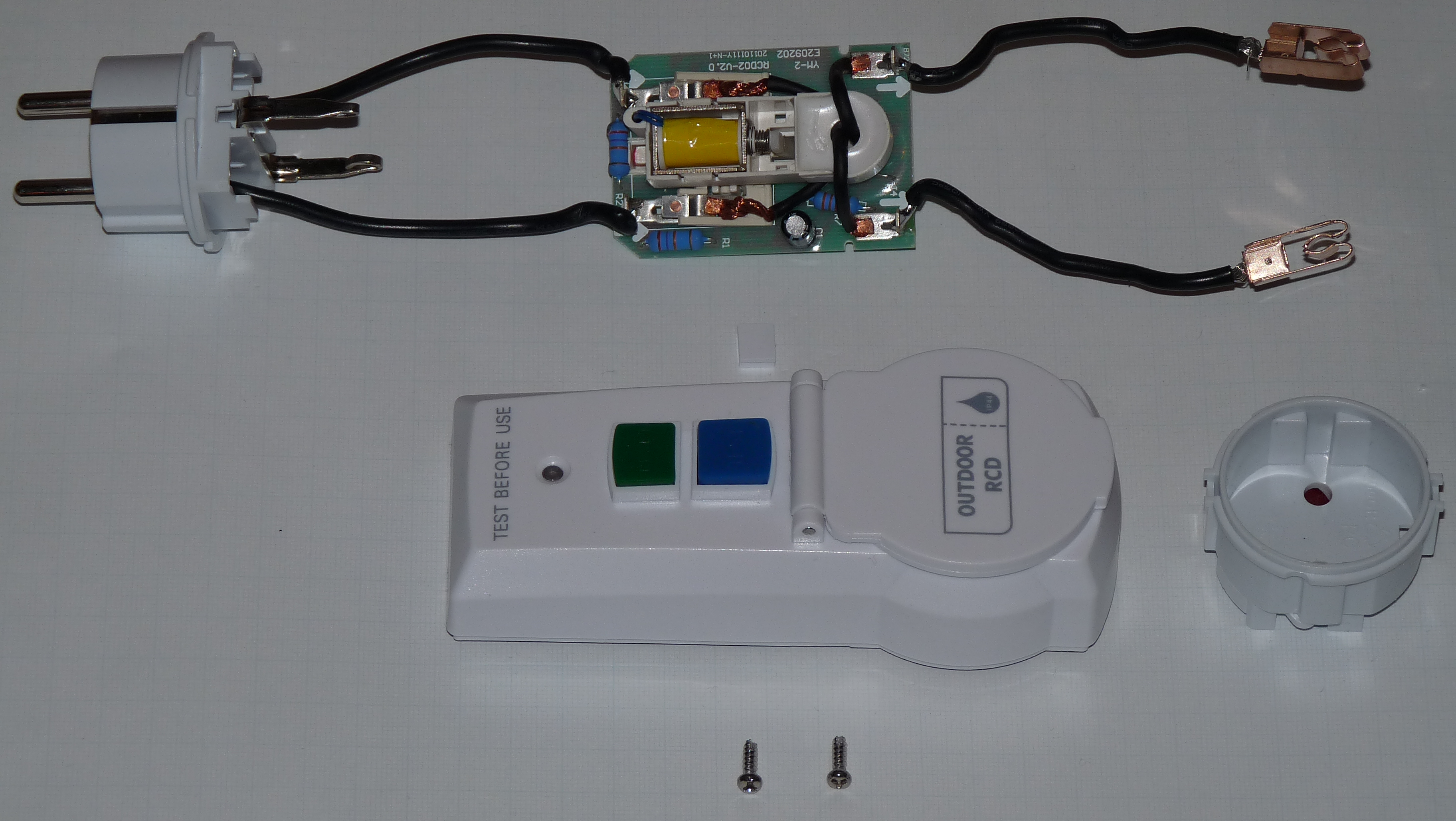 1-phase electronic residual current device for using in Schuko socket.